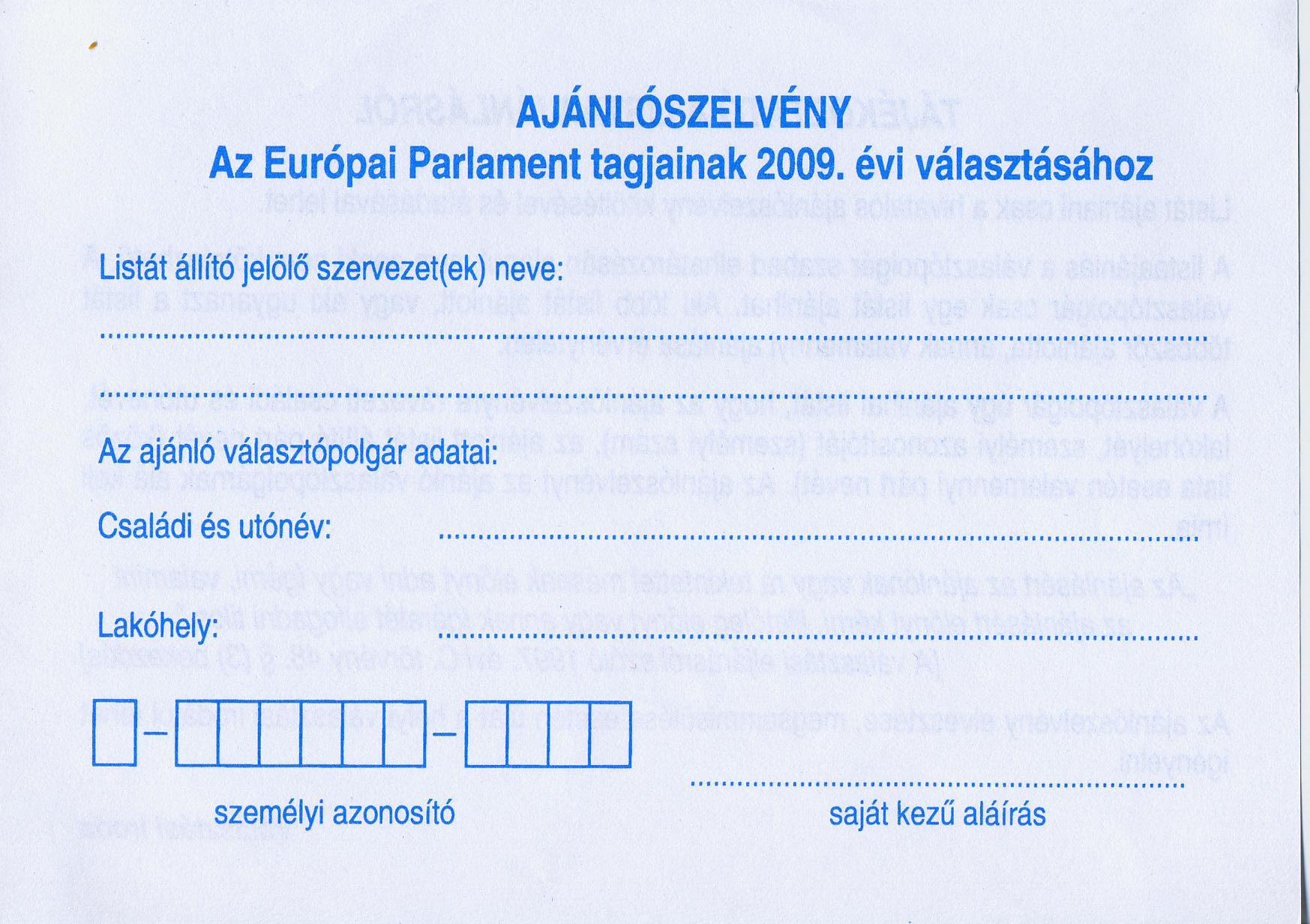 A Hungarian proposal coupon for the European Parliament election of 2009. This card has been delievered alongside with a voter invitation card and a voter registration card for registered individuals via letter. Color, 300 dpi. Hardware: Epson Perfection v10.